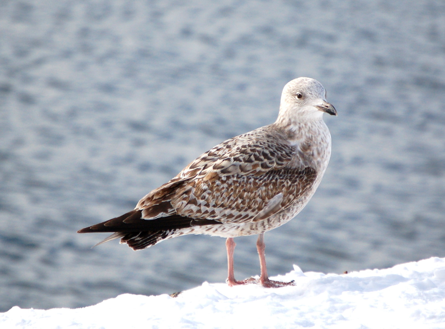 Herring Gull - Larus argentatus, Larvik, Norway